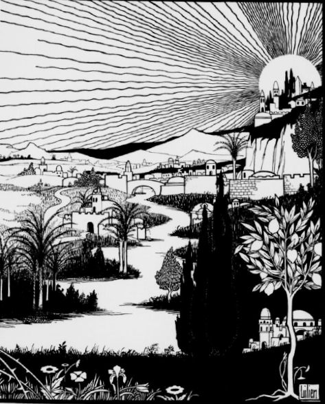 Illustration by Lilien (1874-1925) of the book (1903): Lieder des Ghetto of Morris Rosenfeld; translation from yiddish to german by Berthold Feiwel